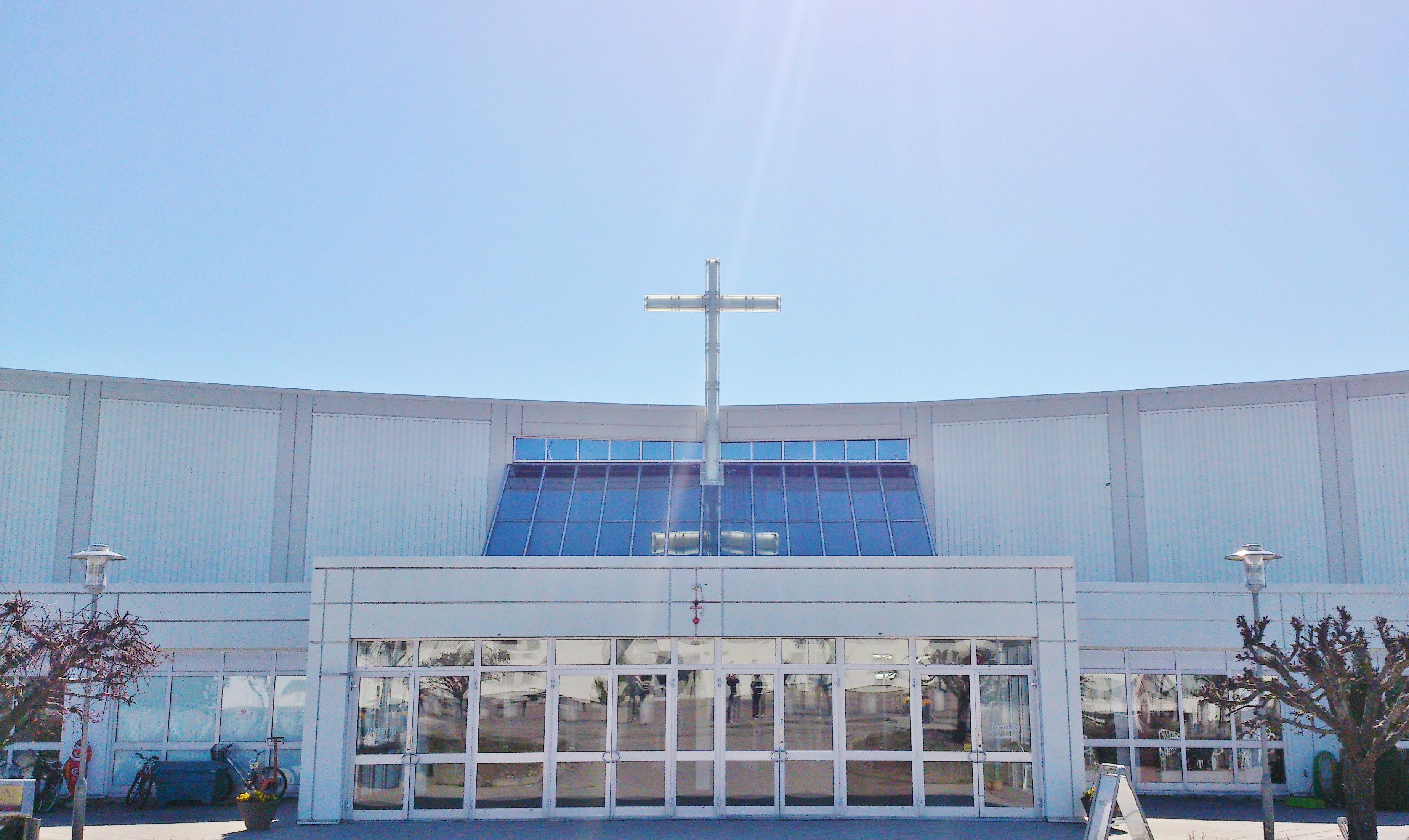 Livets Ord in Uppsala on Aparil 23, 2014